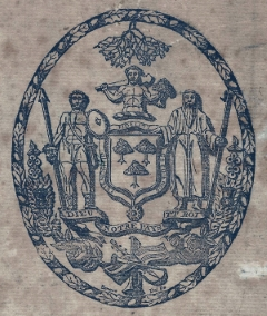 The coat of arms of the Ancient Order of Druids - 1837